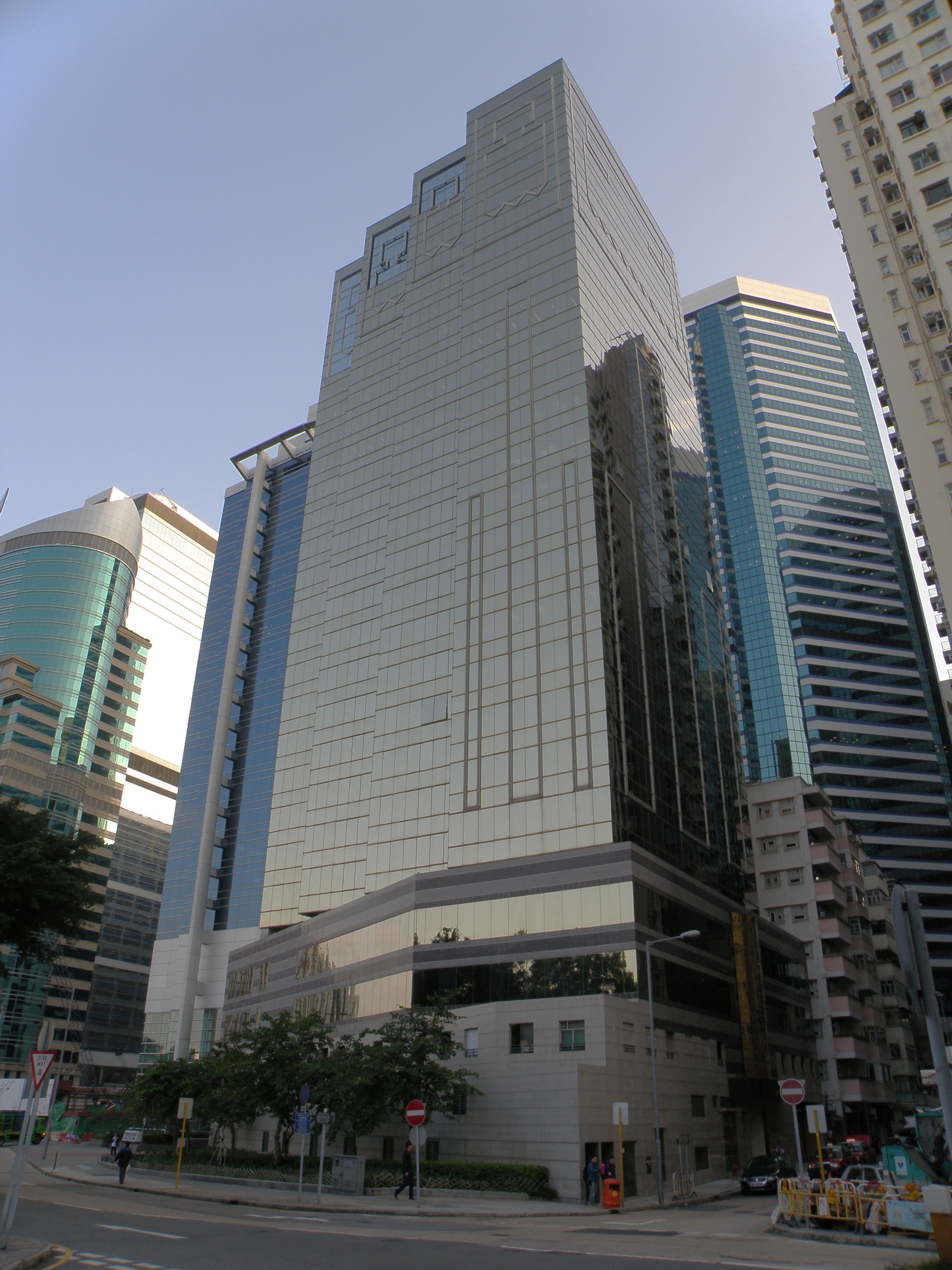 Chinachem Exchange Square in Quarry Bay, Hong Kong.